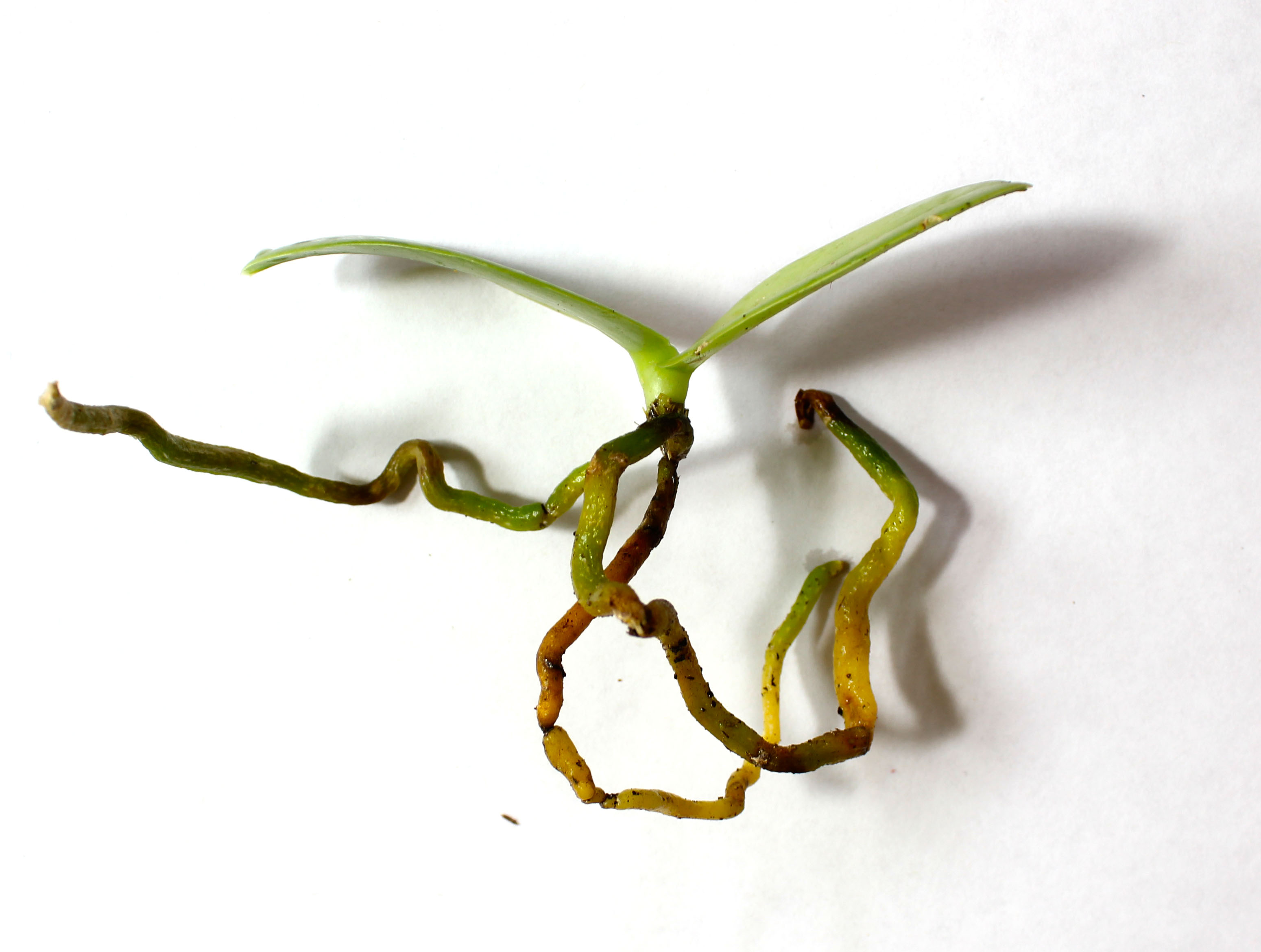 A photo of bare root phalaenopsis gigantea seedling, leaves are 2" across